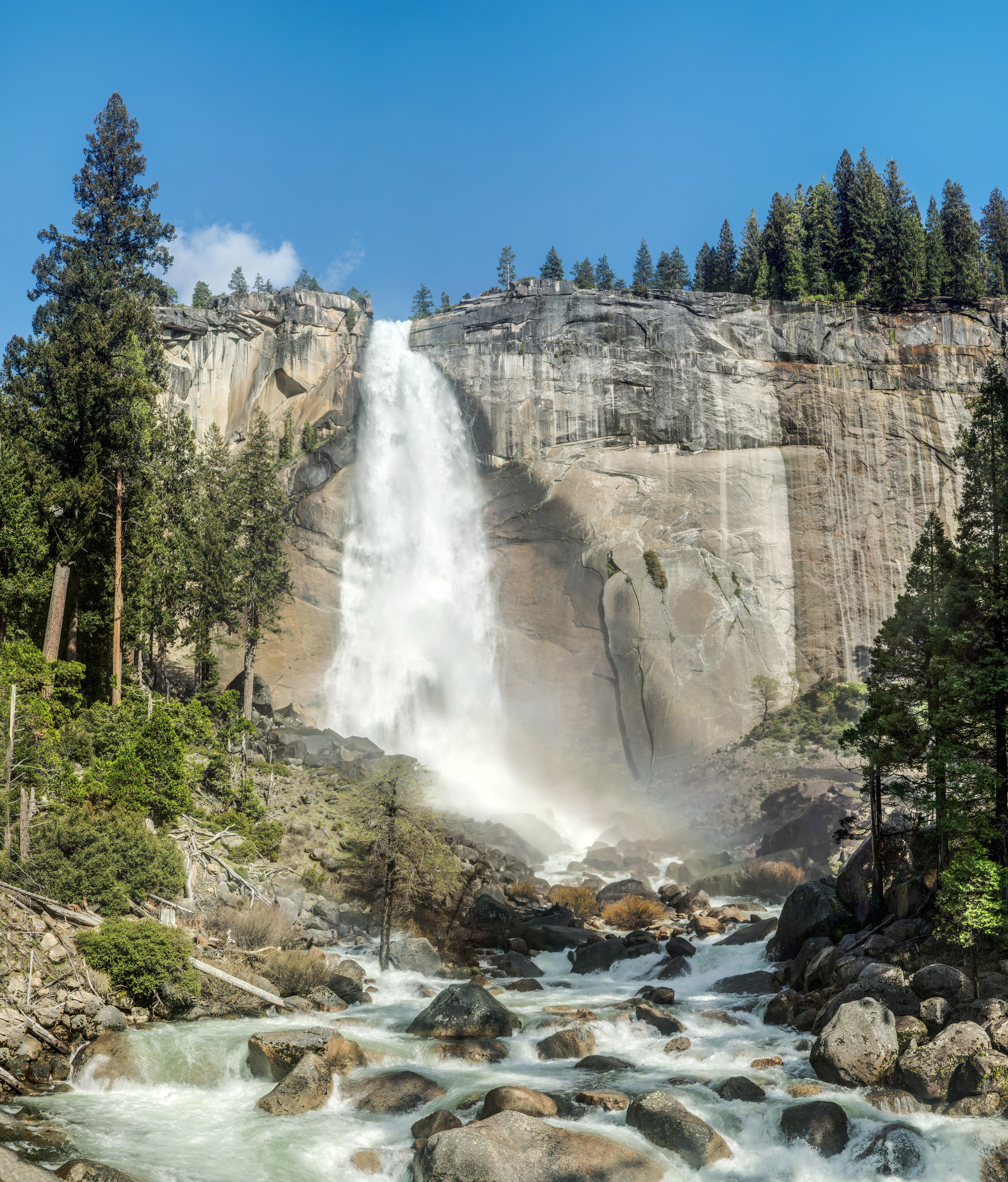 Nevada Fall — as viewed from the Mist Trail in Yosemite National Park.